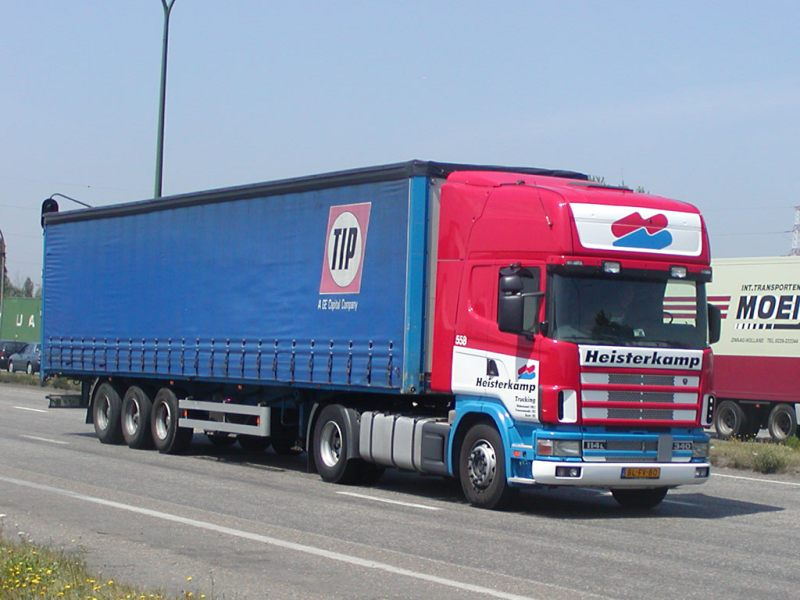 This picture can be found in gallery Scania AB